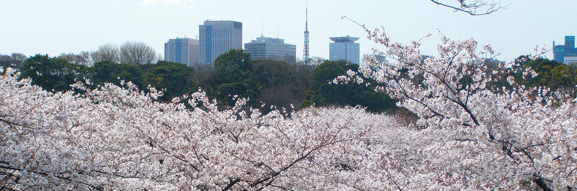 sakura